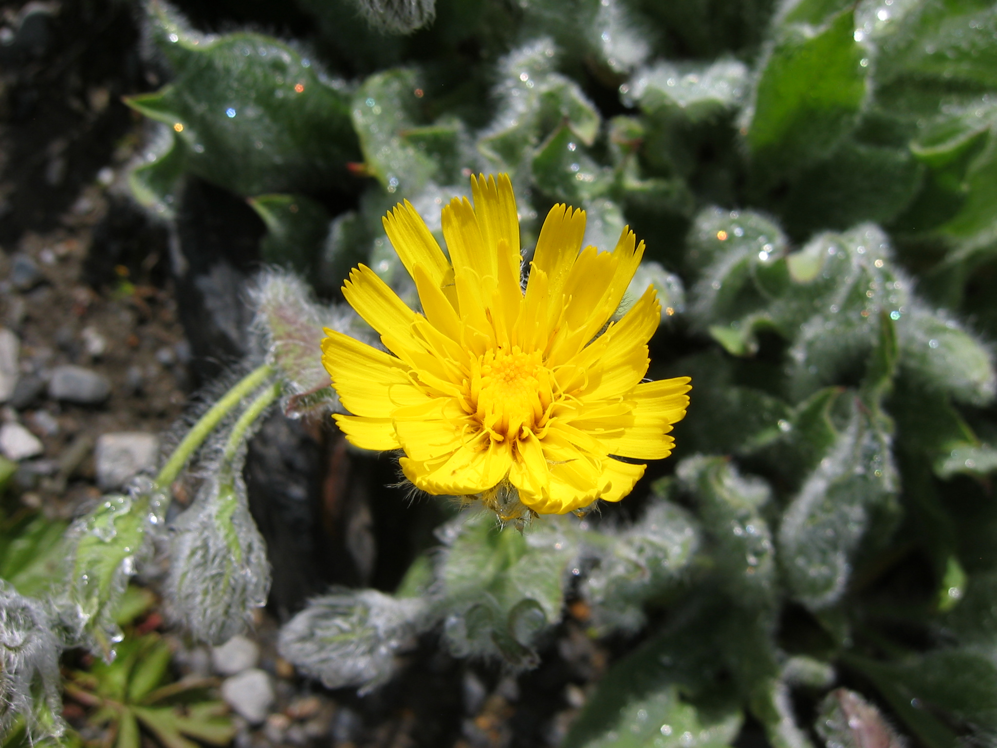 Hieracium villosum